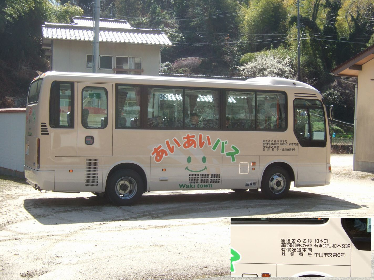 使用車両・側面 (Side view of car of "Waki Community Bus", line nicknamed "Aiai-bus")